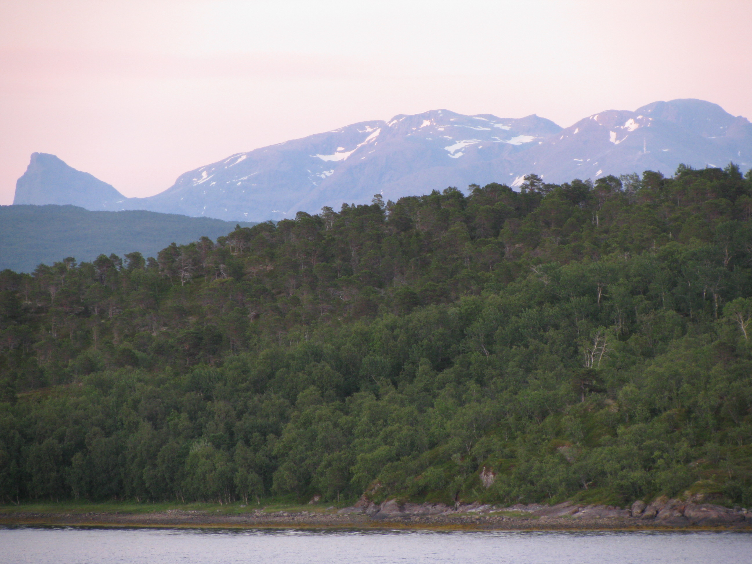 Evening in the coastal pine forest (Pinus sylvestris) with the Narvik mountains in the background. The mountains to the right (Fagernesfjellet above Narvik town) reach up to 1,272 meters /4,173 ft above sea level, still with snow fields. The peak to the left is Tøtta (1,234 m/ 4049 ft). Seaweed in the Ofotfjord can be seen low in image. There is also aspen (Populus tremula) to the right in the image, and birch (Betula pubescens) down to the left near the fjord. 27.July 2008 at 22:10 in the evening. Evenes municipality, Nordland county, Norway; while mountains are in Narvik. This is 220 km inside the Arctic Circle.